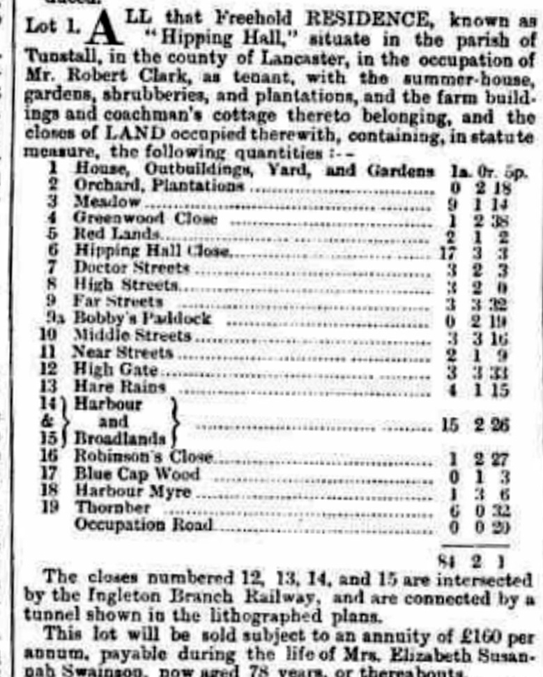 Sale advertisement for Hipping Hall, Cowan Bridge, Lancashire, 1868.